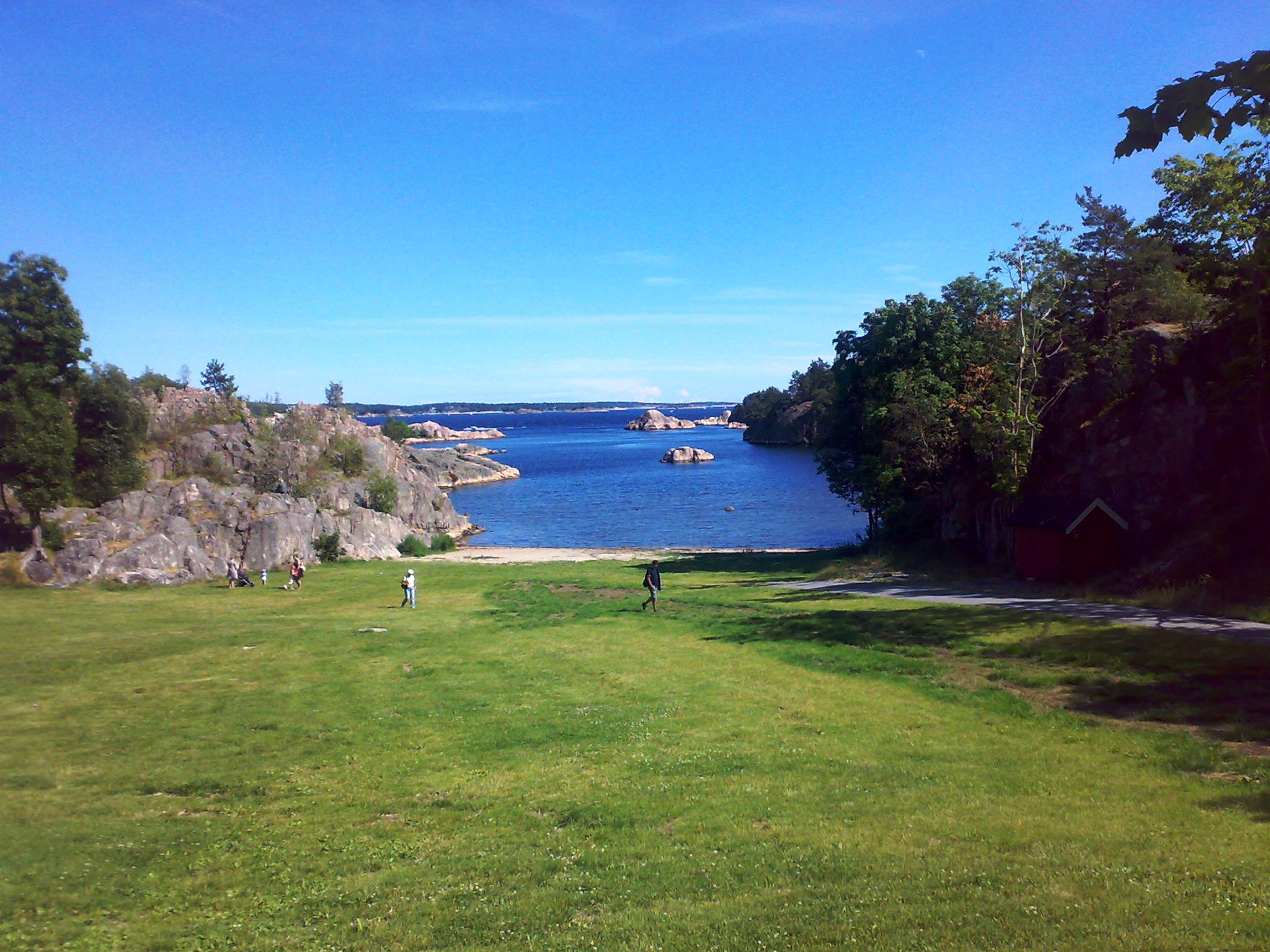 Bendiksbukta at Odderøya, Kristiansand (Norway)